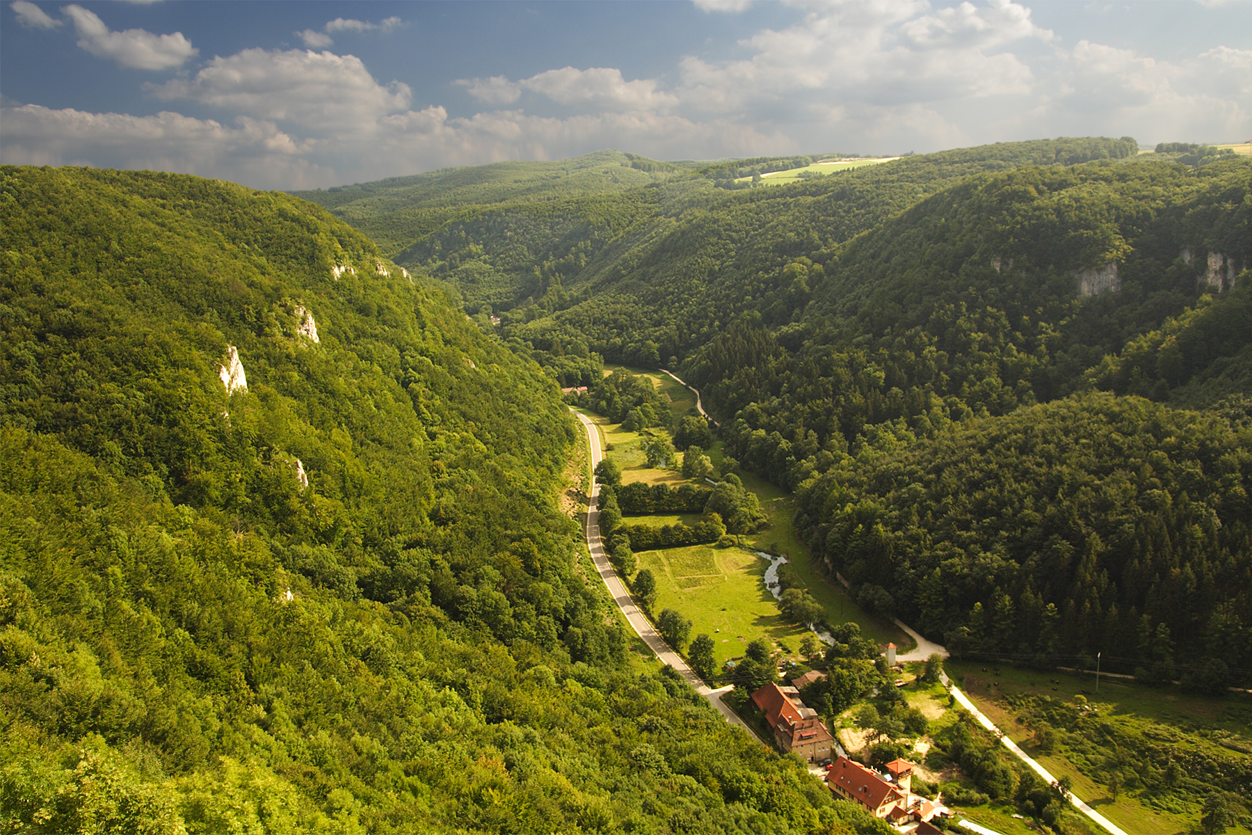 Upper valley of the Erms, seen from the Ruin “Burg Hohenwittlingen”, in the middle between “Seeburg” and Bad Urach, Swabian Alb.The photo shows several properties, typical for the geology of the northern Swabian Alb: The landscape is totally wooded. There are blanc rocks on either ridge of the valley. These are massive biogene limestones of Upper and Middle White Jurassic, which are not divided as bedding plains (see also mud mounds). Diagenetic sediments of harder limestone better resist water erosion. The Erms meanders today as a brook, while a prehistorical, much larger waterway, sedimented travertine and soils of floodplains. Trees, lateral to the valley, indicate two drops of the travertine sediment by 2-5- m.